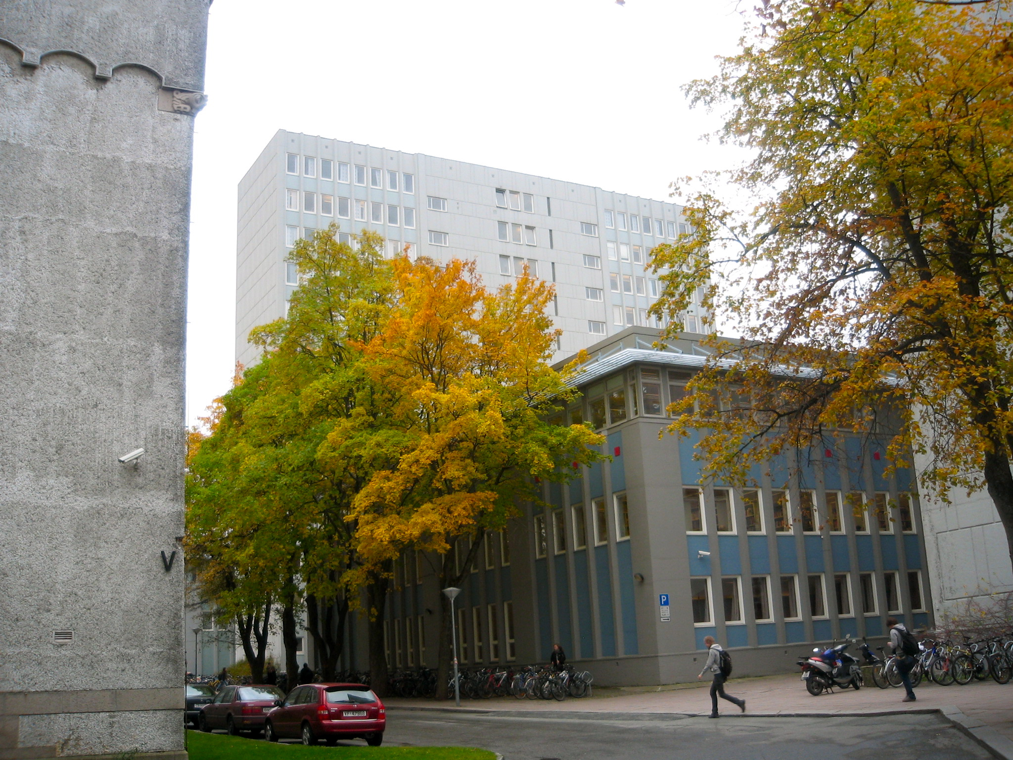 Midtre lavblokk ("the middle low building") - one of three similar buildings erected at the same time as Sentralbyggene ("the Central buildings") in 1961 and 1968. The one in the photo was built in 1961. Architect: Karl Grevstad. Colours: Bruno Lundström. The top floor was added in 2003. Architect: Nils Henrik Eggen.